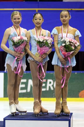 The ladies podium at the 2007-2008 Junior Grand Prix Final. From left: Rachael Flatt (2nd), Mirai Nagasu (1st), Yuki Nishino (3rd).